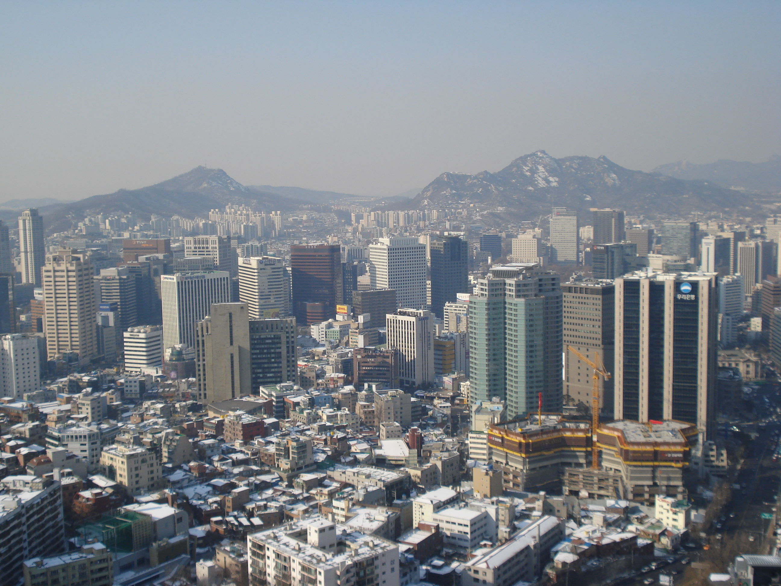 a view of northern Seoul from Namsan tower.